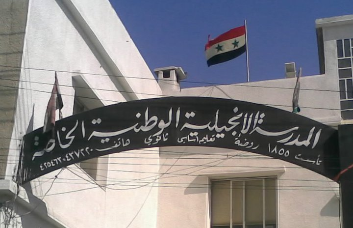 Main Door Sign